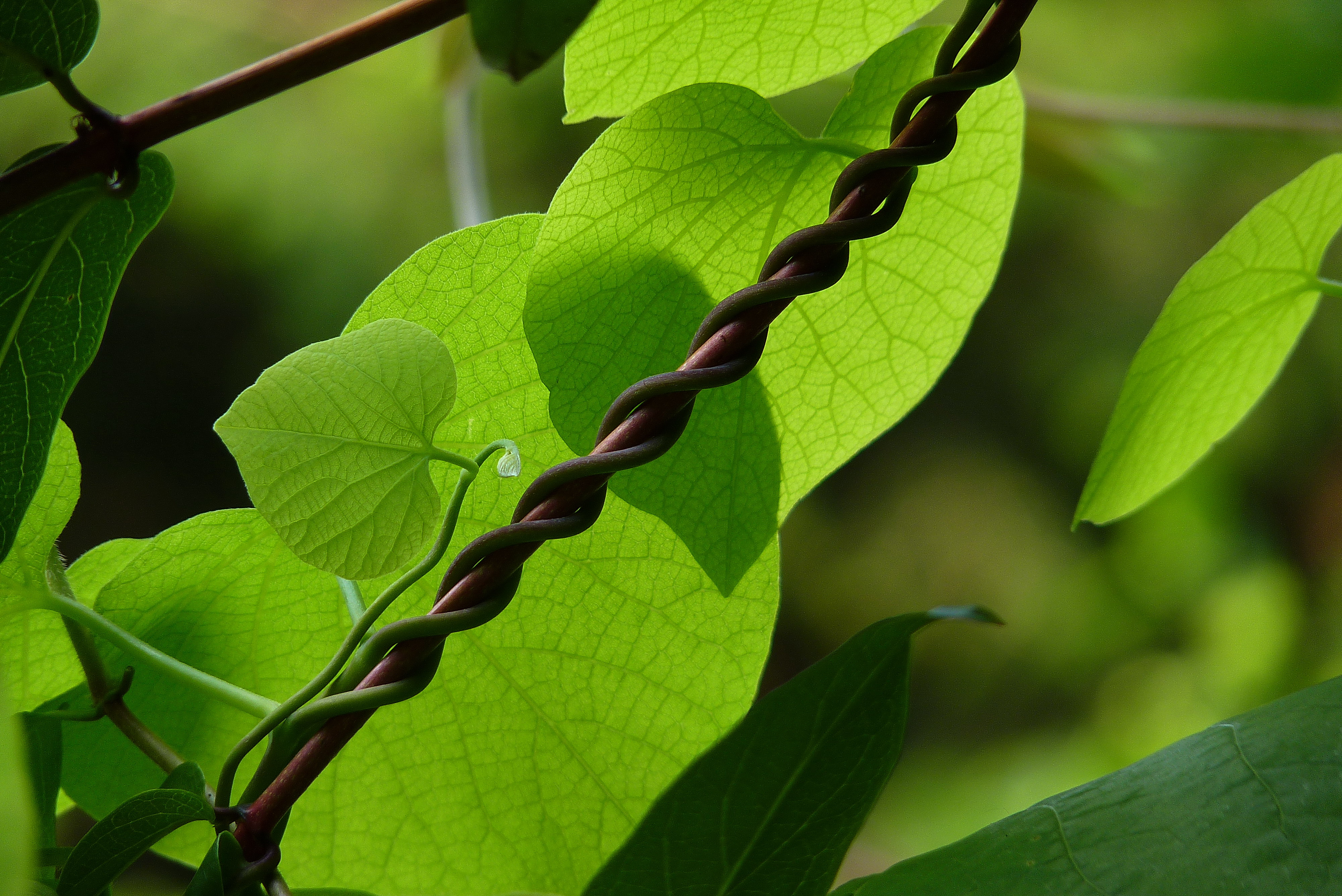 Aristolochia macrophylla